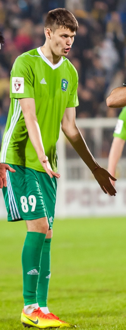 Dmitri Osipov with FC Tom Tomsk in a game against FC Rostov.